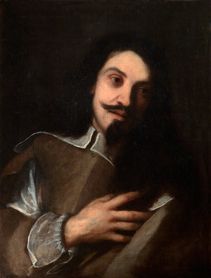 Karel Škréta (1610 – 30 July 1674) was a Czech Baroque painter.